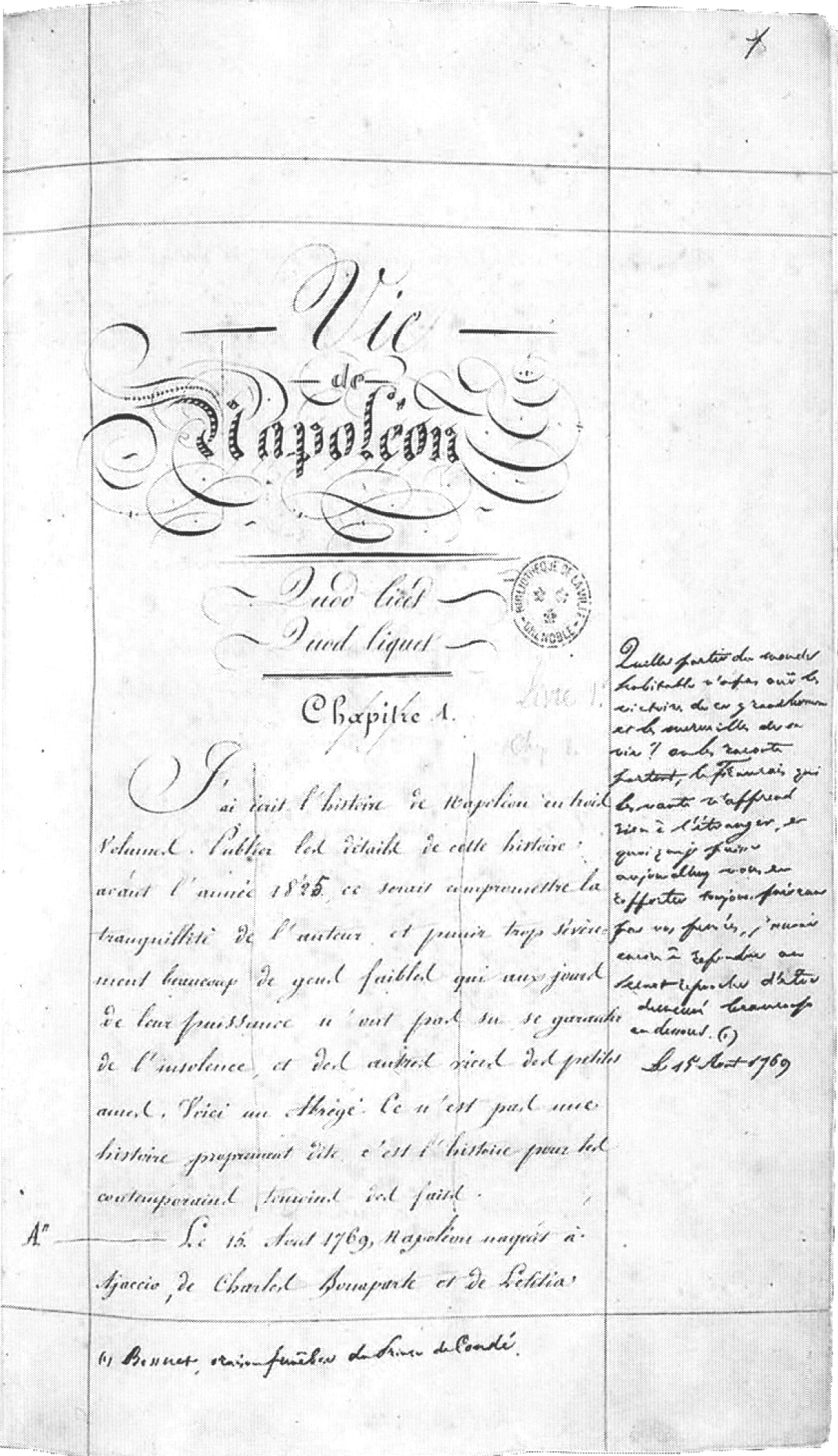 Title page of Life of Napoleon by Stendhal with annotations from the author